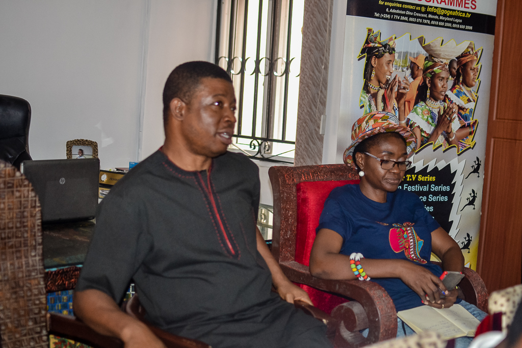 Activities marking the launching of Wiki Loves Africa 2016 at Goge Africa, Lagos, South west Nigeria on the 1st of December 2016